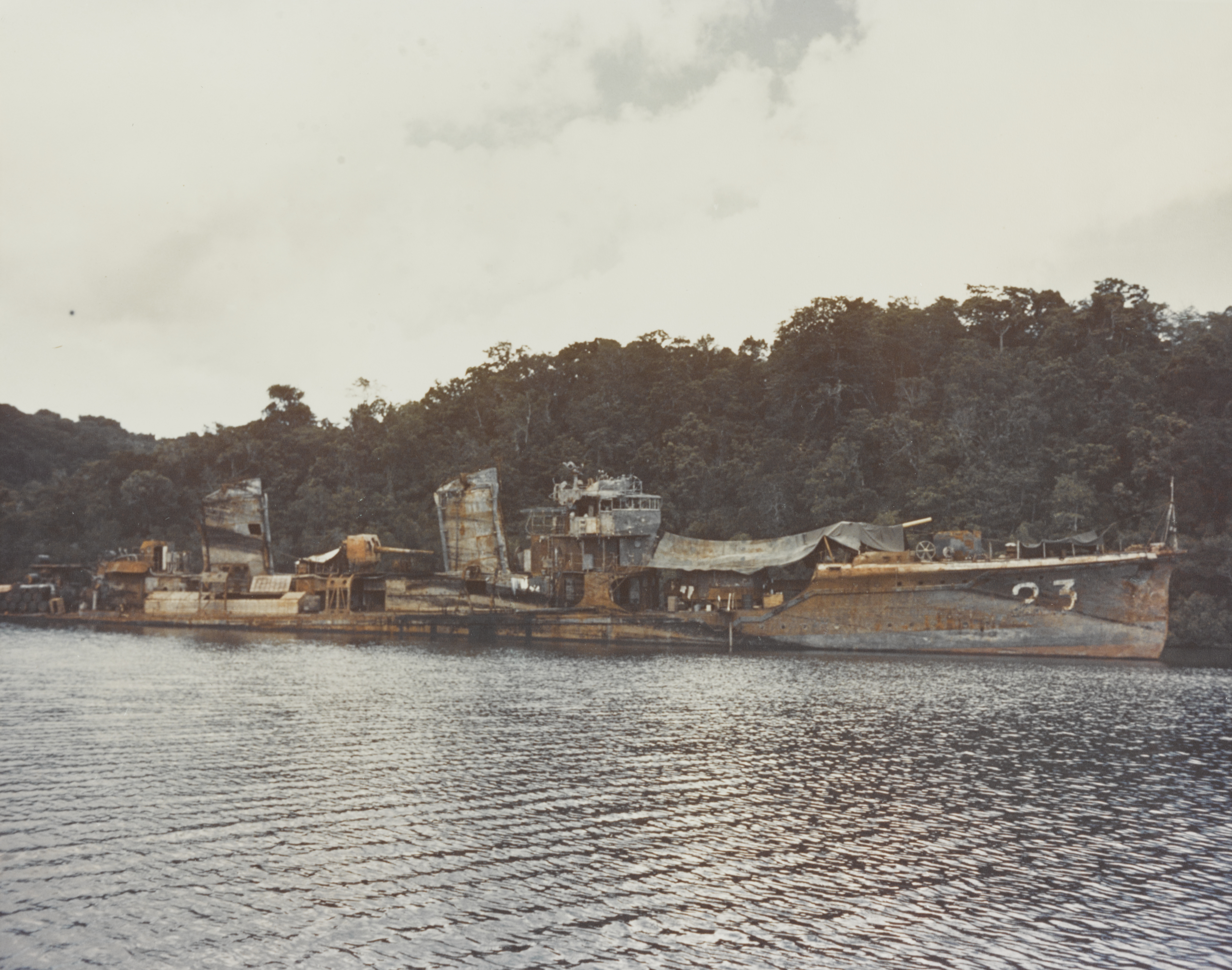 The Japanese destroyer Kikuzuki (1926-1942) beached in Purvis Bay, Florida Island, Solomon Islands, in 1944. She had been sunk on 4 May 1942, when USS Yorktown (CV-5) planes raided the Tulagi area, and was salvaged by the U.S. Navy in 1943. The number "23" on her bow represents the 23rd Destroyer Division, to which Kikuzuki belonged when she was sunk.